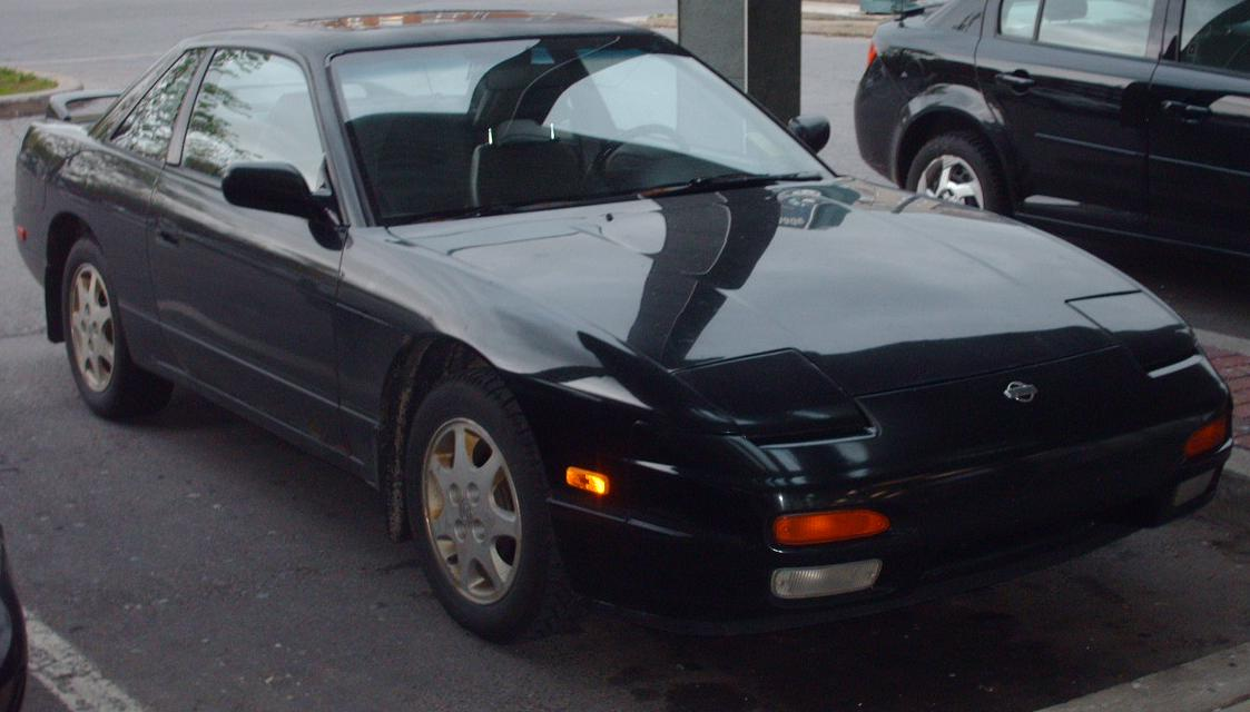 1991-1994 Nissan 240SX coupe photographed in Montreal, Quebec, Canada.